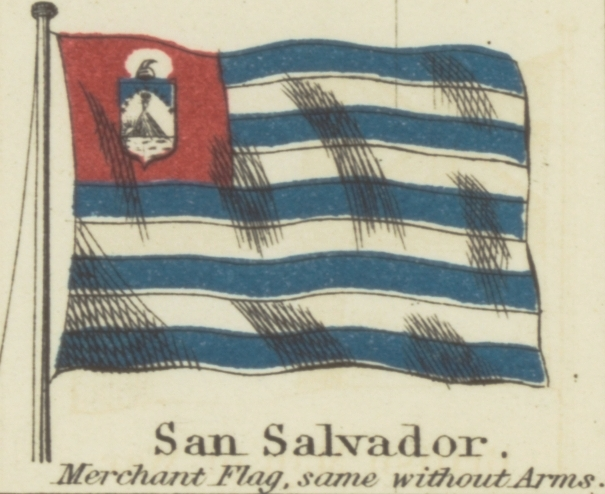 San Salvador. Johnson's new chart of national emblems, 1868.jpg Johnson's new chart of national emblems. Print showing the flags of various countries, those flown by ships, and the "Signals for Pilots." In the top left corner is the "United States" 37-star flag, in the top right corner is the "Royal Standard of the United Kingdom Great Britain & Ireland"; in the bottom left corner is the "Russian Standard" and in the bottom right corner is the "French Standard." The flags on this sheet differ slightly from those on another sheet numbered 4 [top left] and 5 [top right].